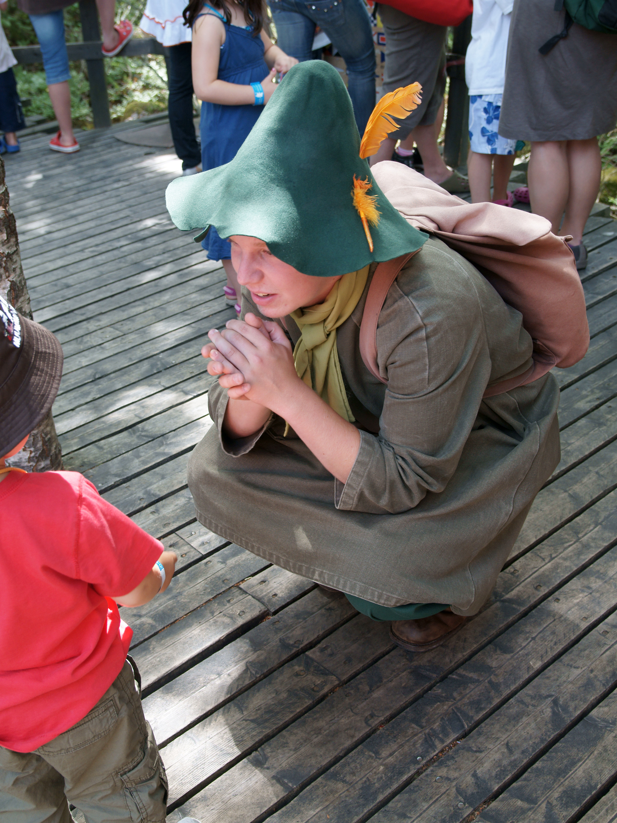 Snufkin in Muumimaailma, Naantali.